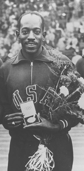 Harrison Dillard, athlete from USA, at 1952 Summer Olympics